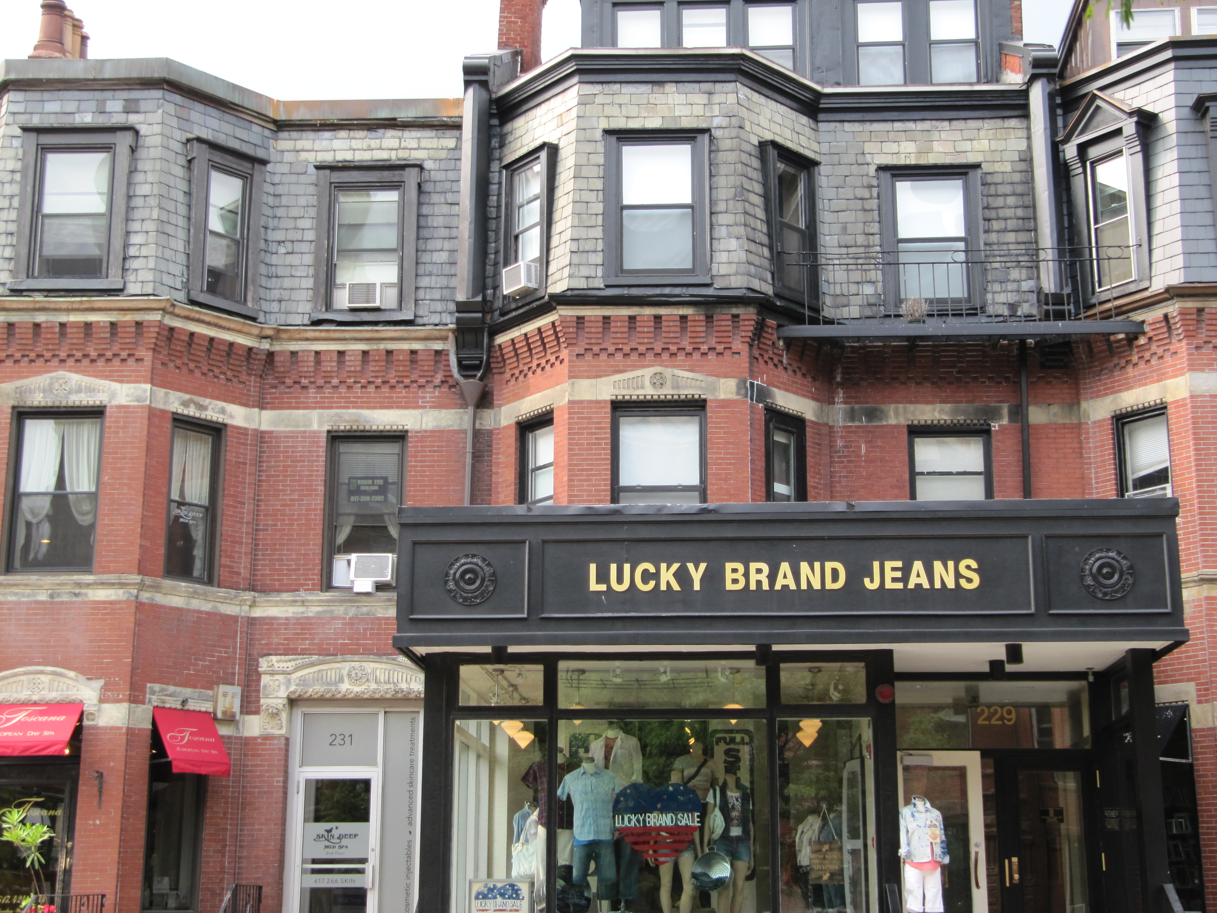 Lucky Brand Jeans store on Newbury Street in Boston, Massachusetts. June 2010 photo by John Stephen Dwyer.